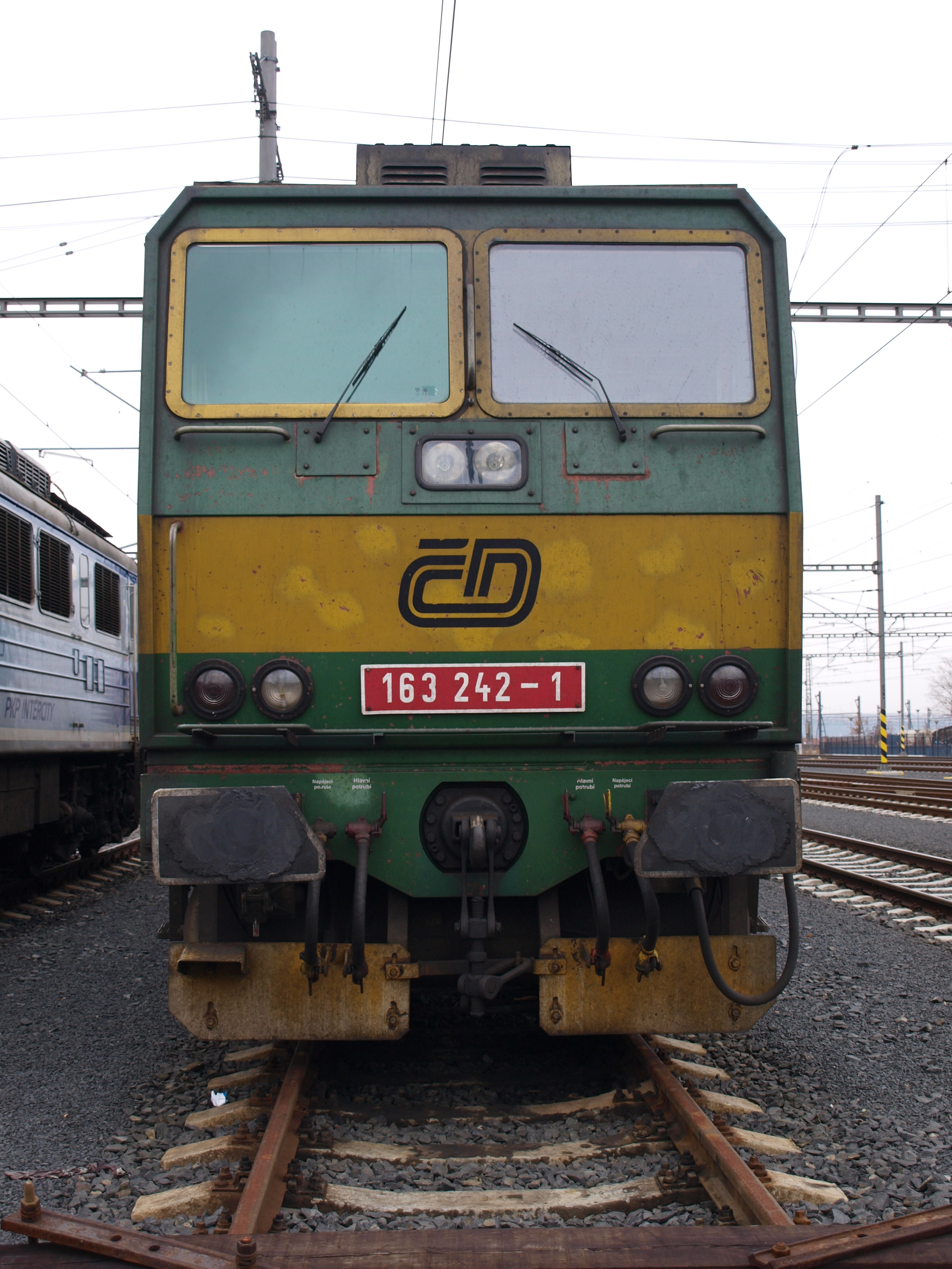 Locomotive 163.242 at Prague main station